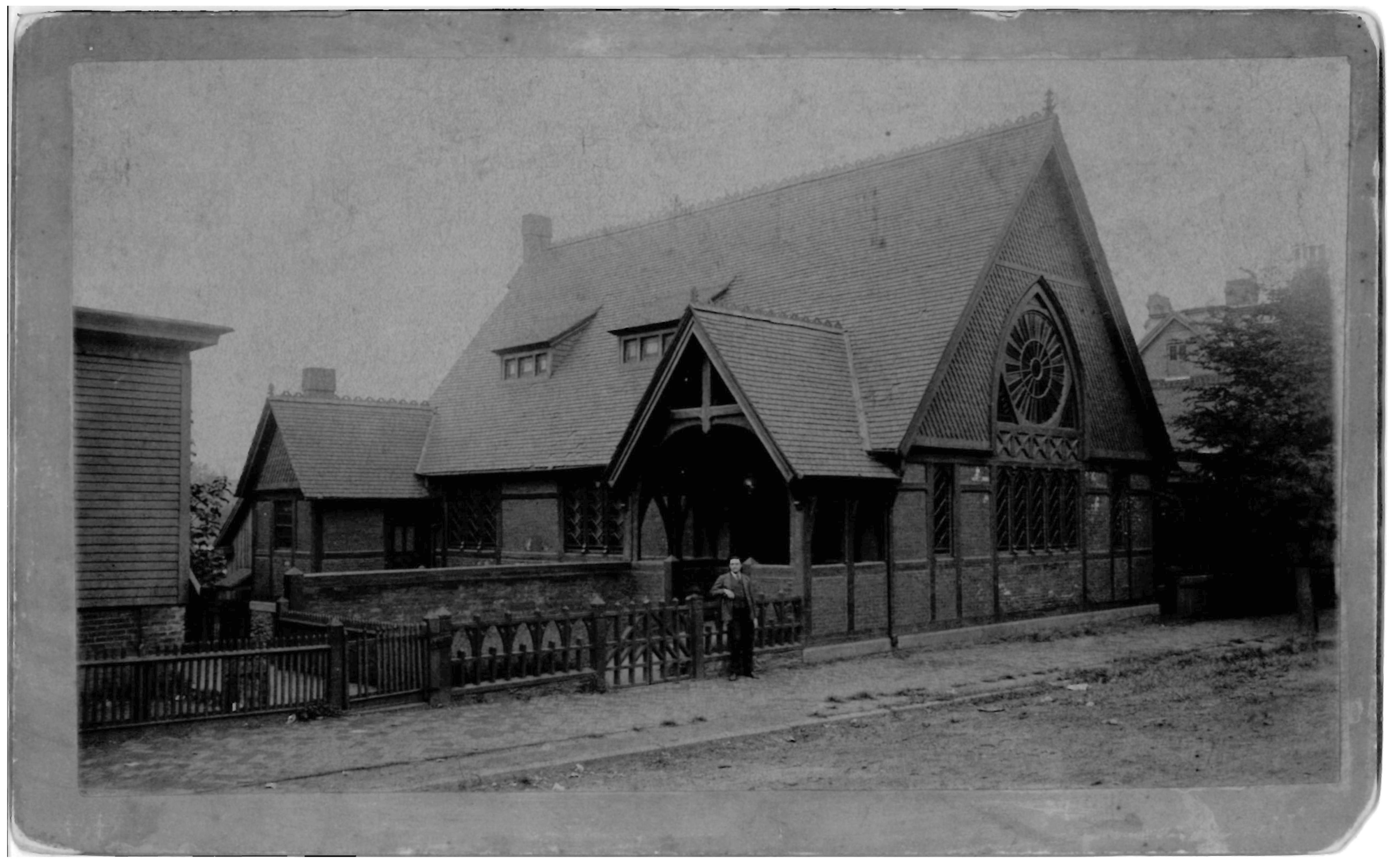 Church of our Father, first Unitarian church in Atlanta, GA founded in 1882. Located on 14 Church Street (later re-named Carnegie Way). Man in front of the church is believed to be the Rev. George Leonard Chaney